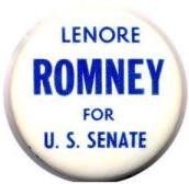 celluloid-laminated, pin-backed campaign button printed with the slogan "LENORE ROMNEY FOR U.S. SENATE" which was used during Lenore Romney's ultimately unsuccessful bid for the seat in 1970 as the Michigan Republican Party's nominee.